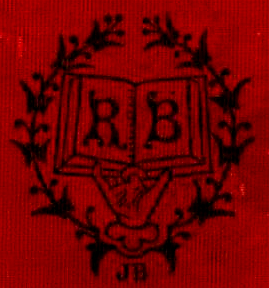 Logo of the Roberts Brothers publishers.